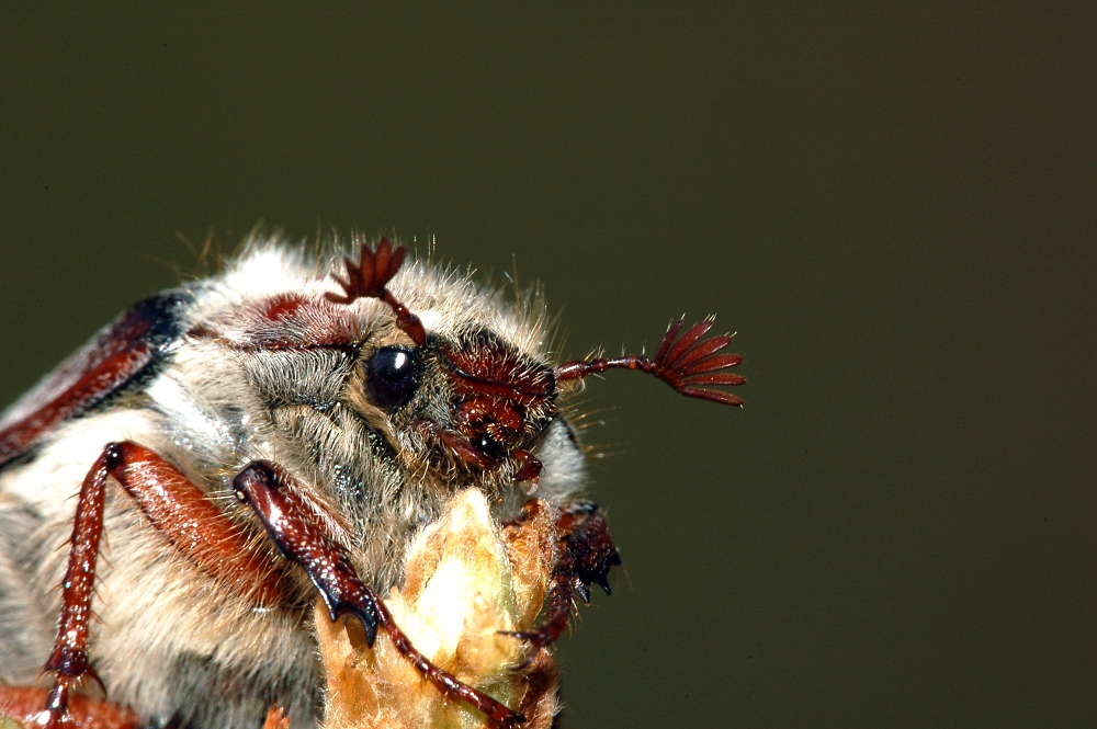 Melolontha hippocastani, Darmstadt, Germany